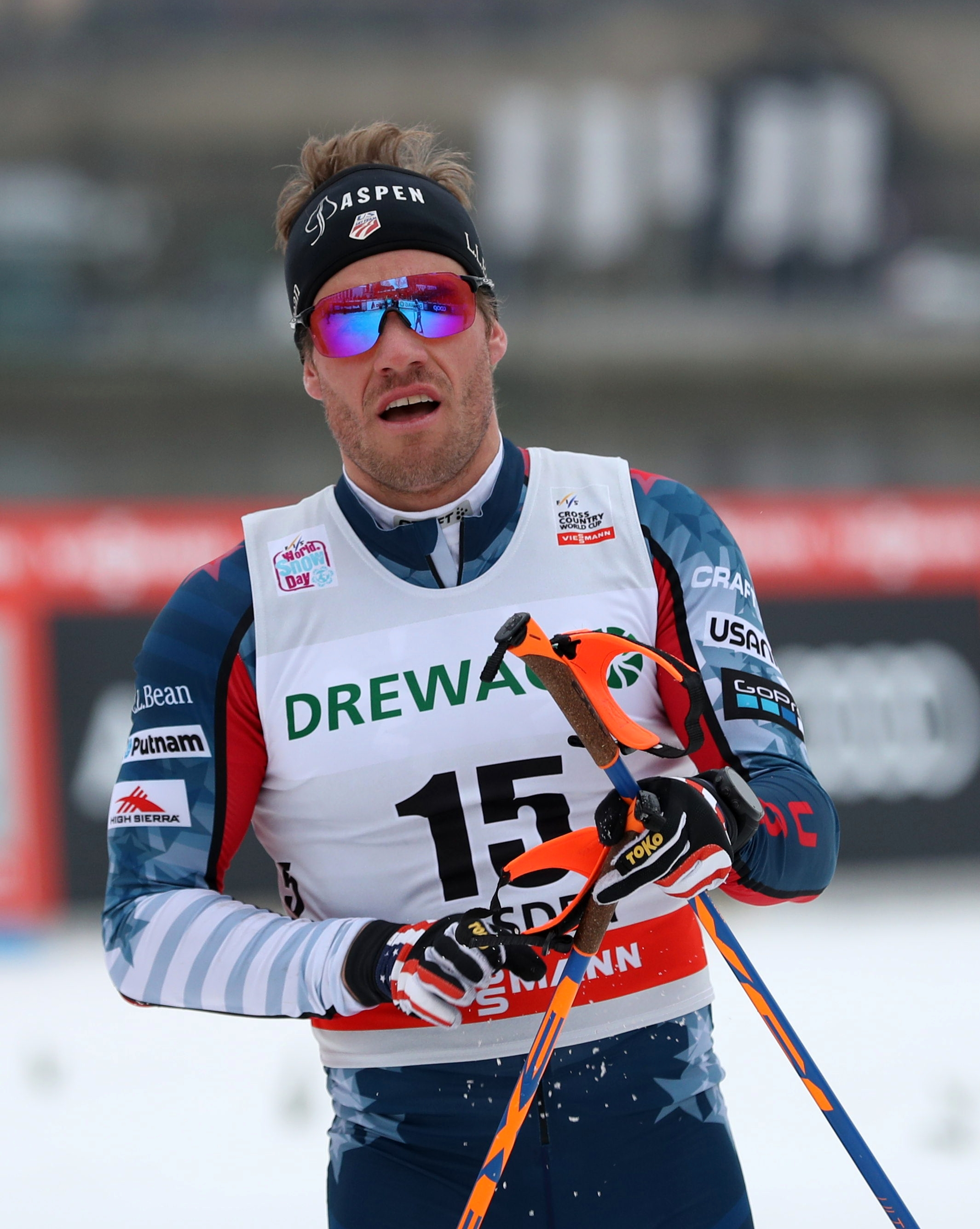 Mens Semifinal at the FIS Cross-Country World Cup Dresden 2018: Simeon Hamilton